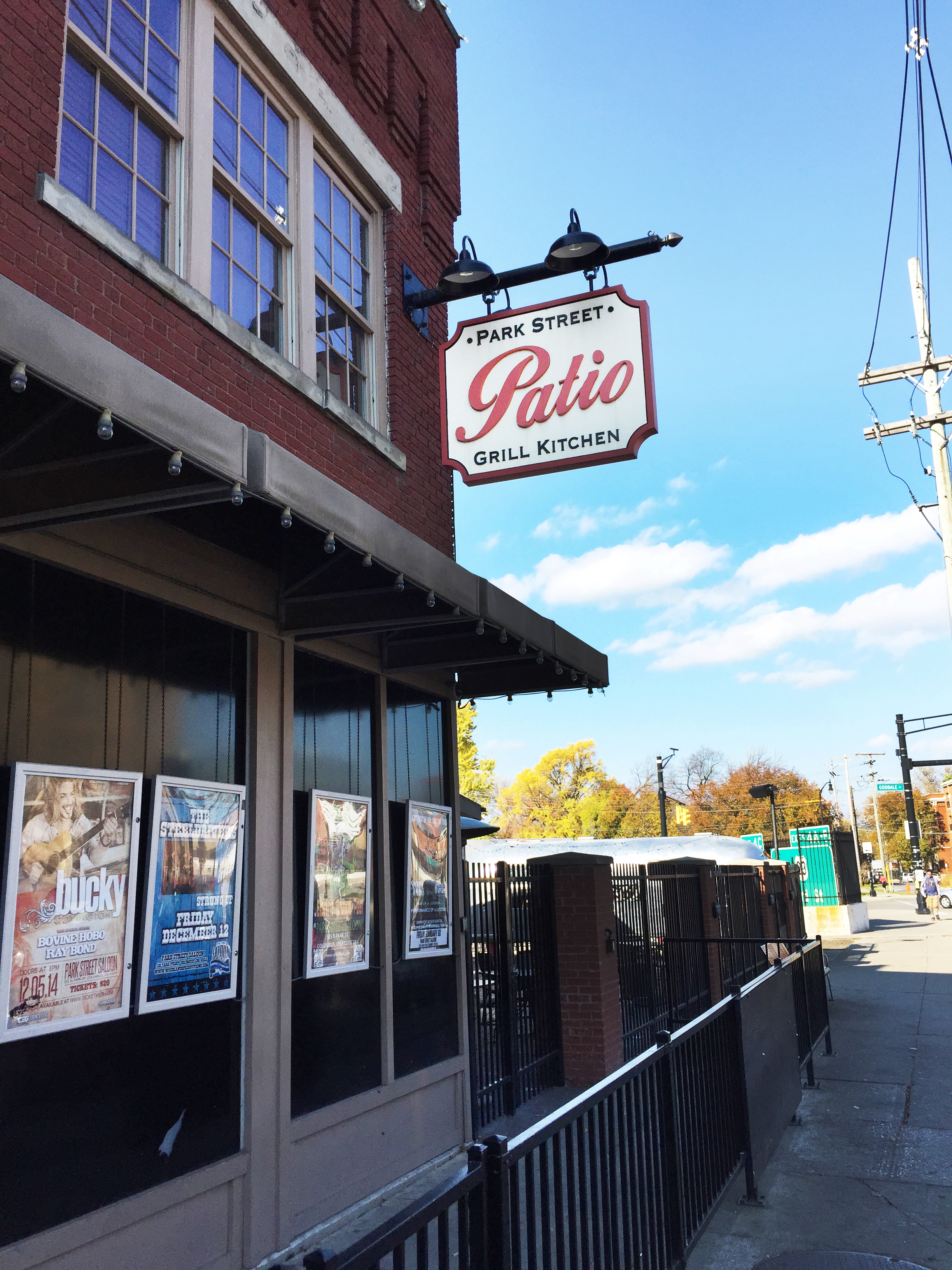 Park Street Patio